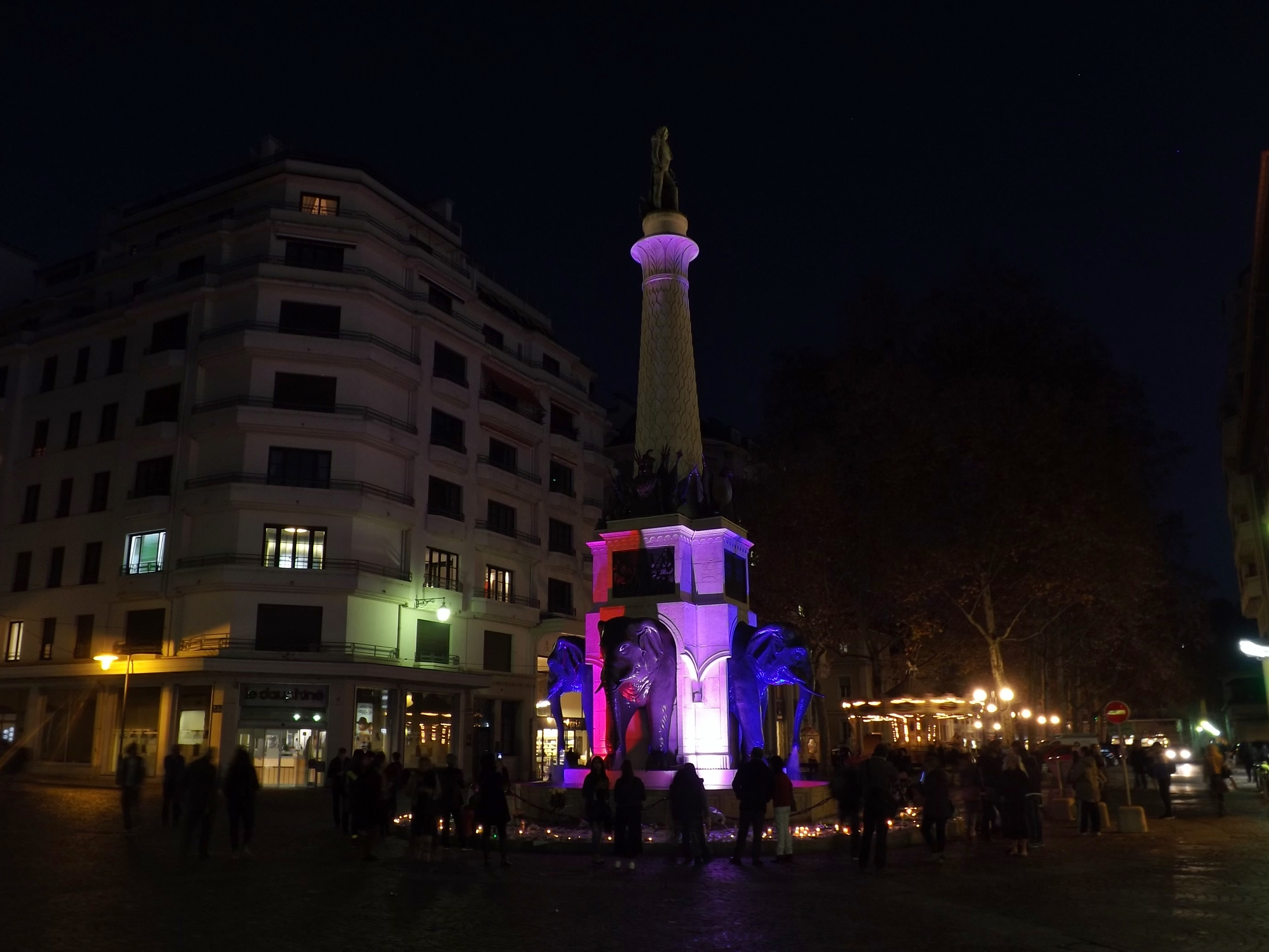 Sight of the fontaine des éléphants fountain of Chambéry (Savoie), lit with the colors of France after the November Paris attacks and a street memorial at its foot.